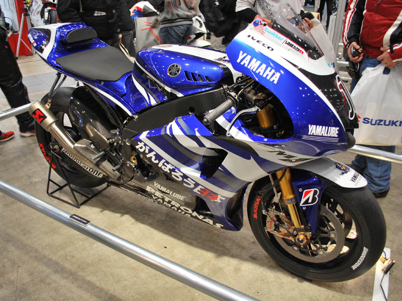 Yamaha YZR-M1 2011, Jorge Lorenzo